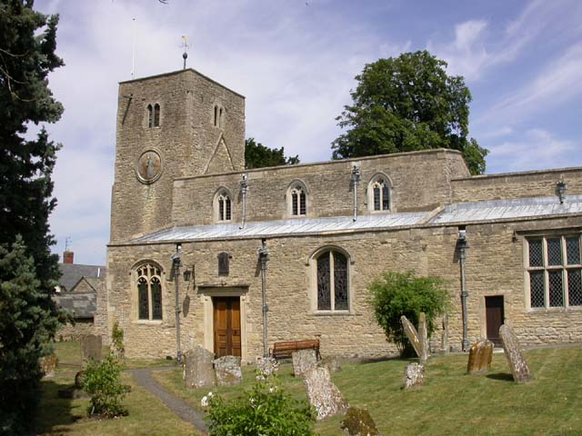 Church of England parish church of All Saints, Ravenstone, Buckinghamshire, seen from the south